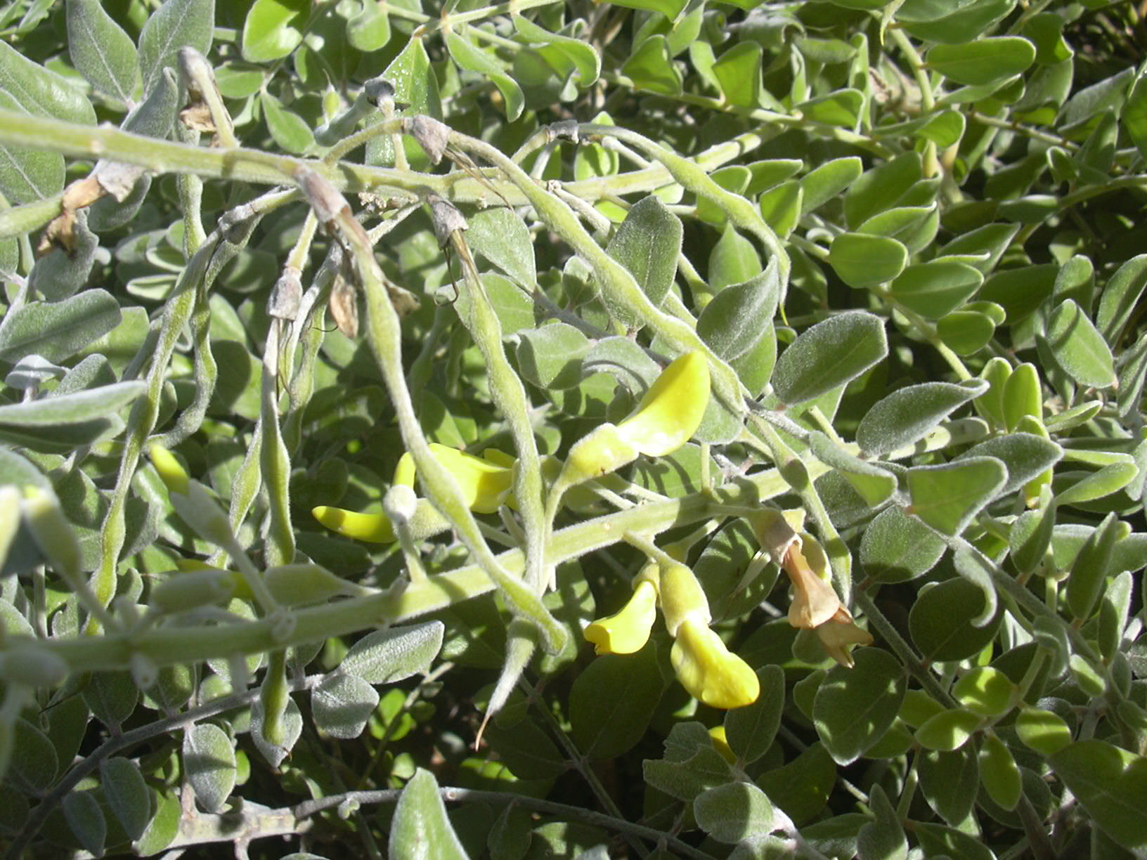 Sophora tomentosa (flowers). Location: Florida, Deering Park